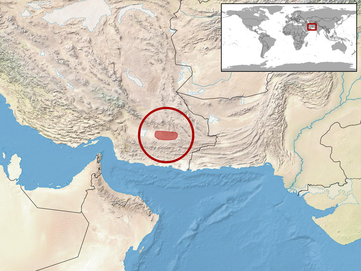 geographic distribution of Cyrtopodion brevipes (Native: Iran, Islamic Republic of)